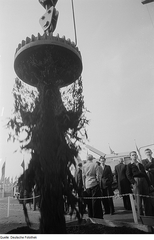 Demonstration of industrial lifting electromagnet on crane. VEB Heavy Engineering, S. M. Kirow, Leipzig.